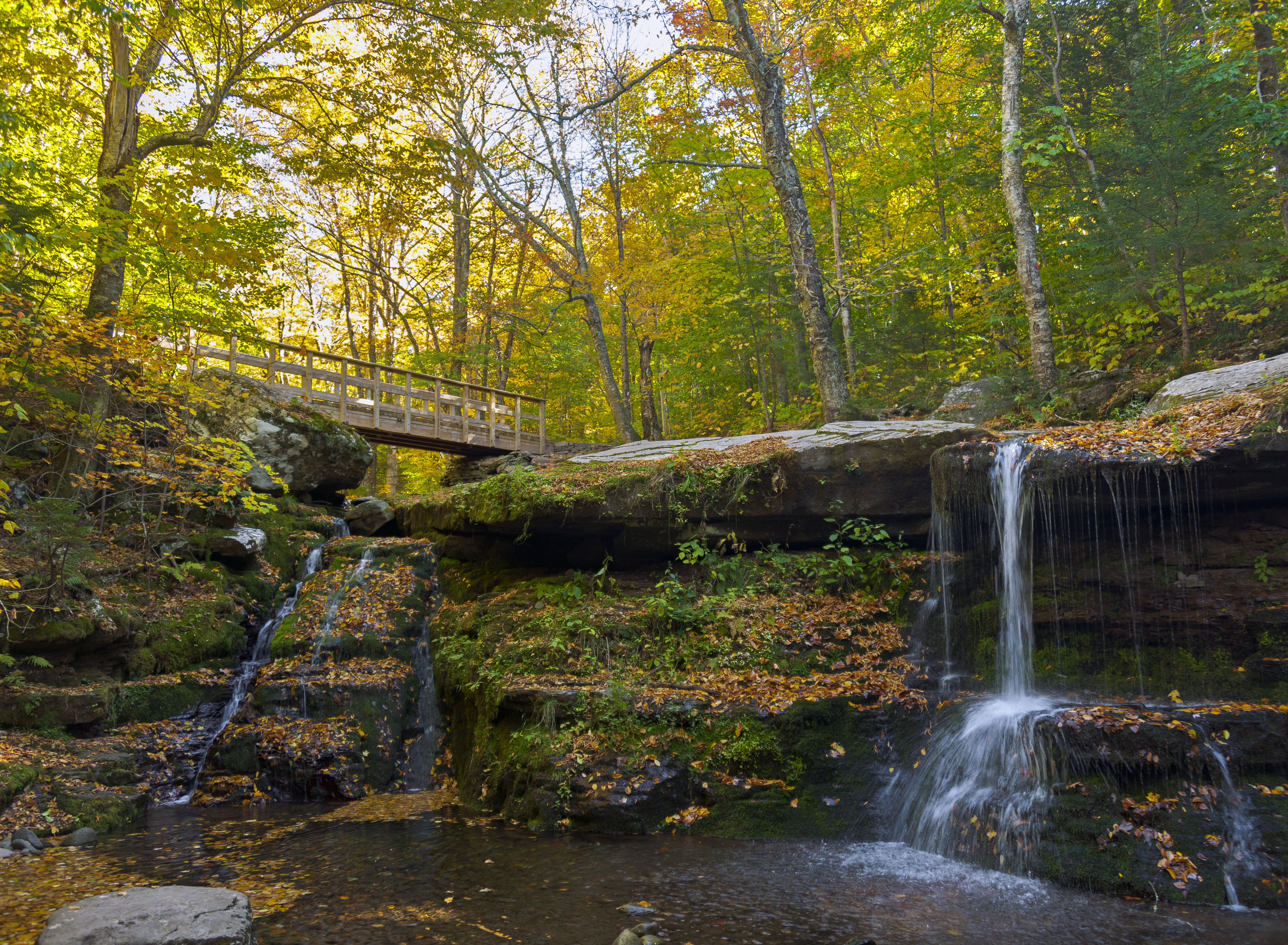 Diamond Notch Falls, along the West Kill in the West Kill Wilderness Area of New York's Catskill Park, in autumn. Since there had been a drought during the preceding months, the falls are not as dramatic as they could be. The bridge carries the Diamond Notch Trail and the Devil's Path, a rare trail duplex in the Catskills, one that ends just off the bridge as the latter trail (one of whose plastic markers is visible on a tree) forks off to climb West Kill Mountain while the Diamond Notch Trail continues to that feature.